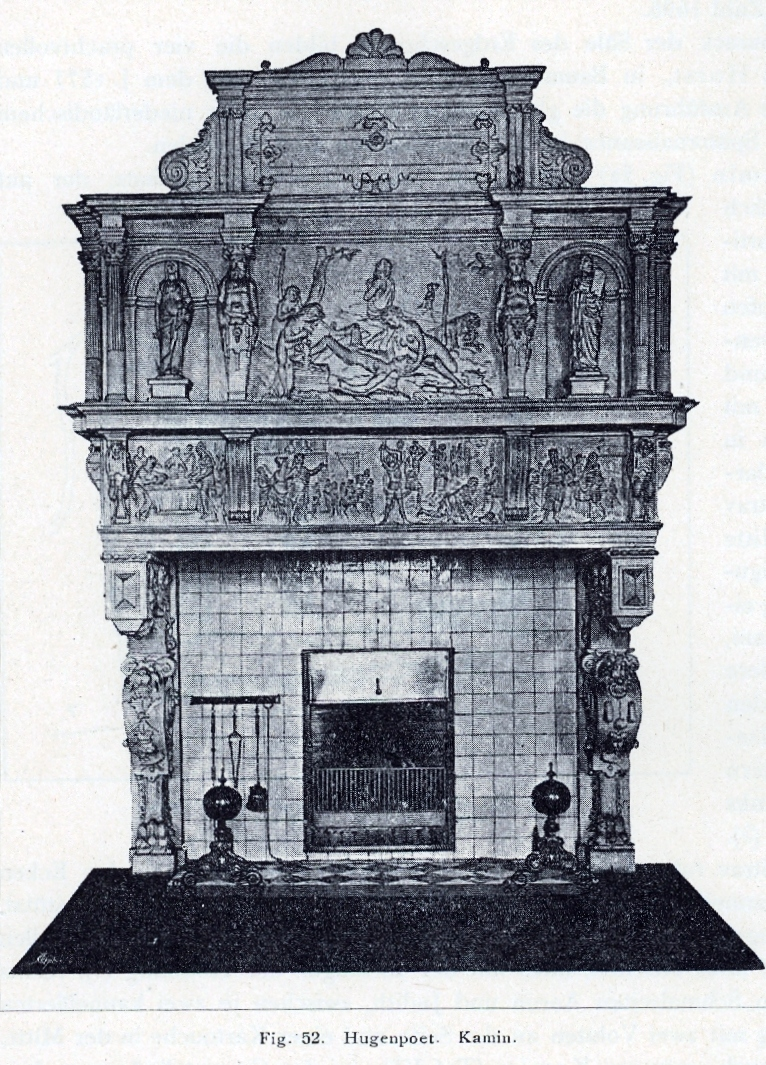 t